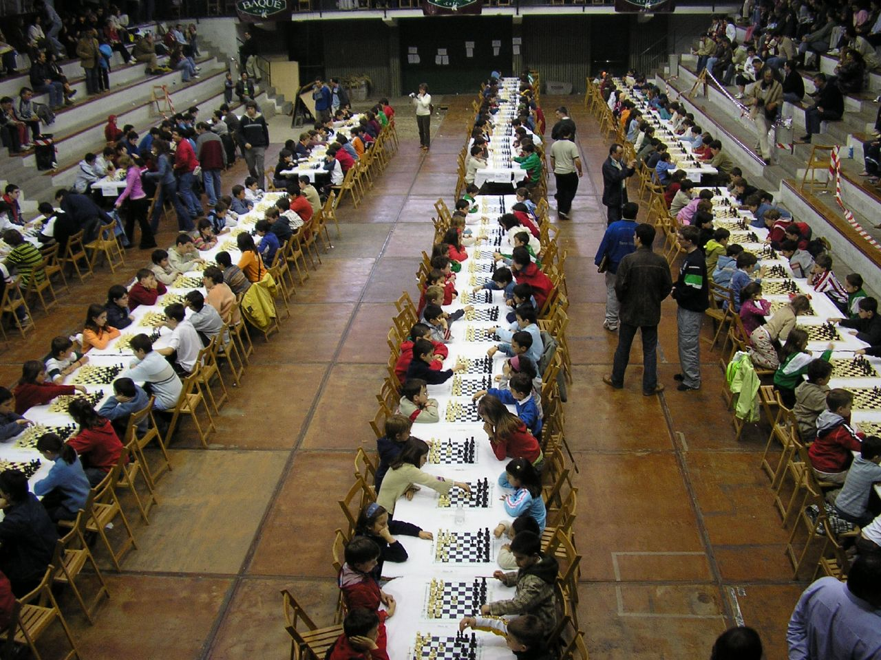 Spanish chess tournament